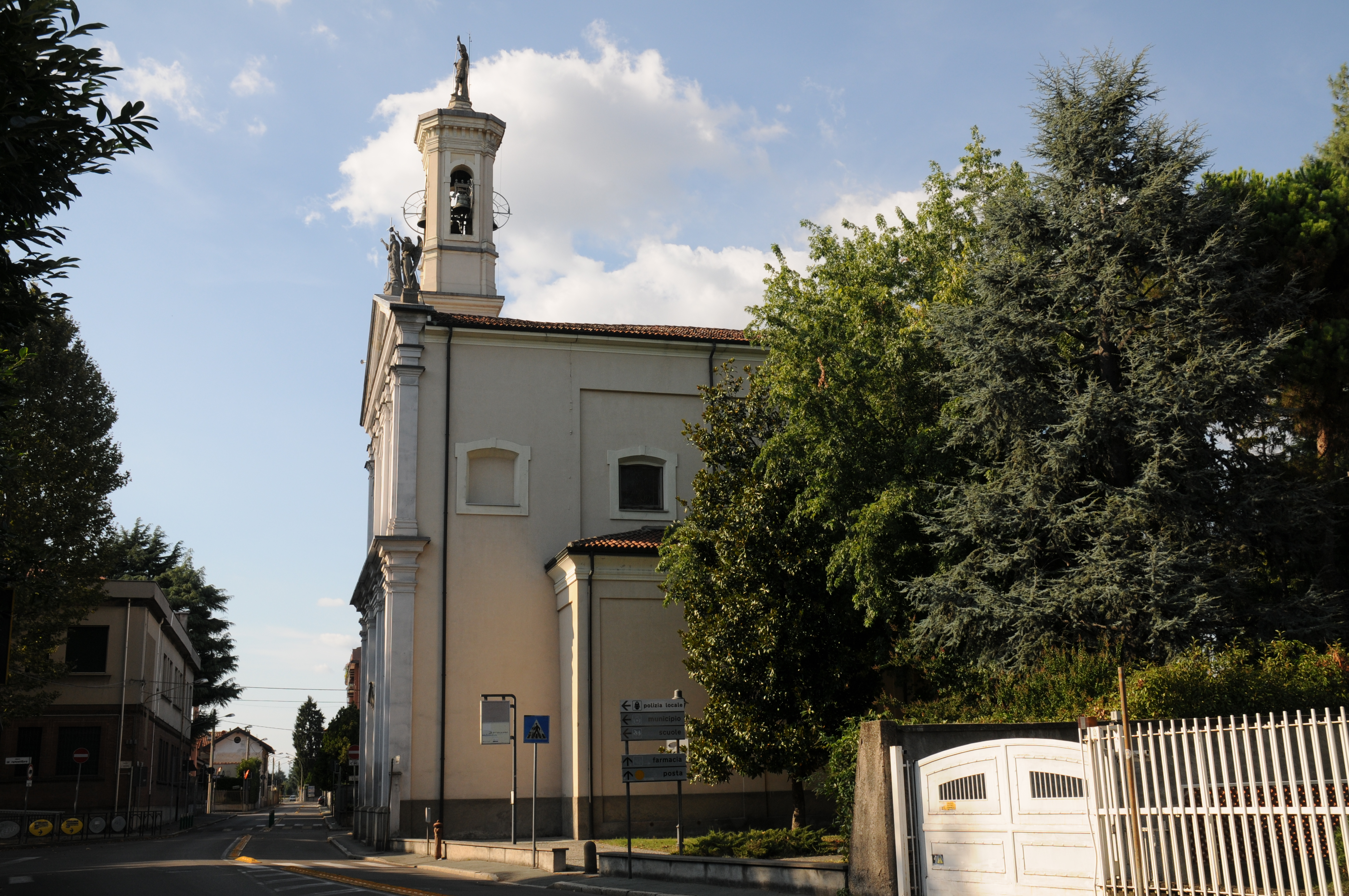 Crucifix Church in San Giorgio su Legnano (Italy)